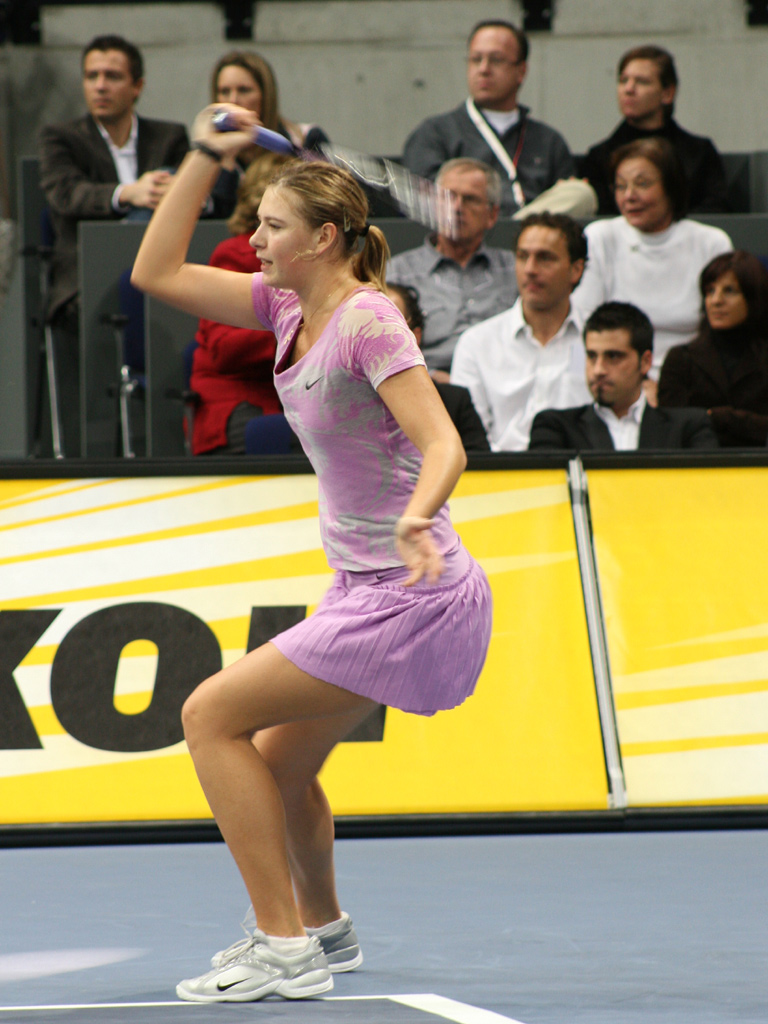 Maria Sharapova am Zurich Open 2006